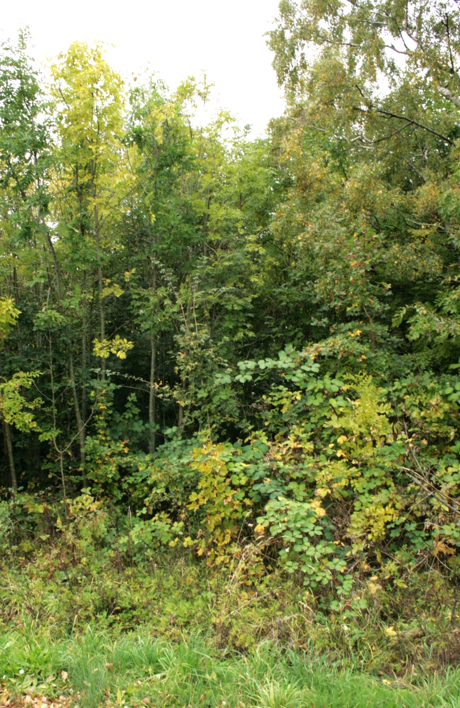 Picture from a garden that was abandoned 20 years ago. The garden shows that succession towards broadleaved forest has been unhindered for a long time. Langballe, south of Århus Denmark.